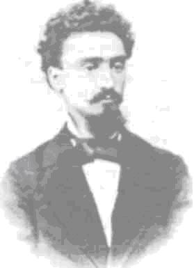 Georgi Georgov.